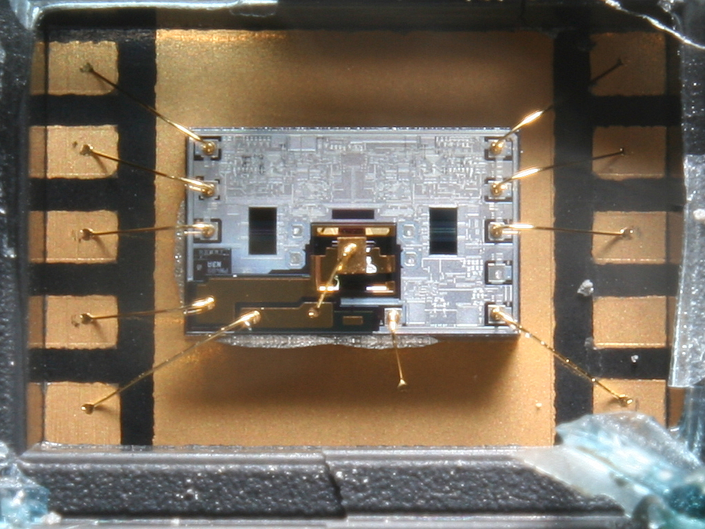 Laser diode and fotodiode used in TEAC CD-ROM